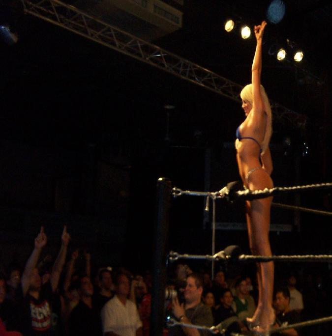 WWE Diva Kelly Kelly ringside